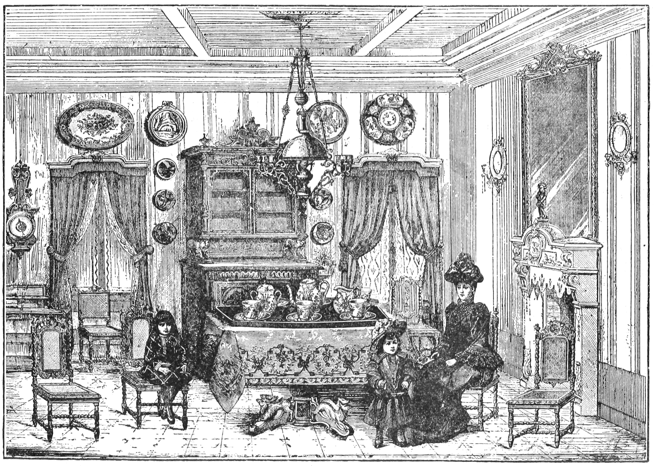 A French dining room in an 1892 illustration